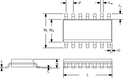 from the englisch Wikipedia